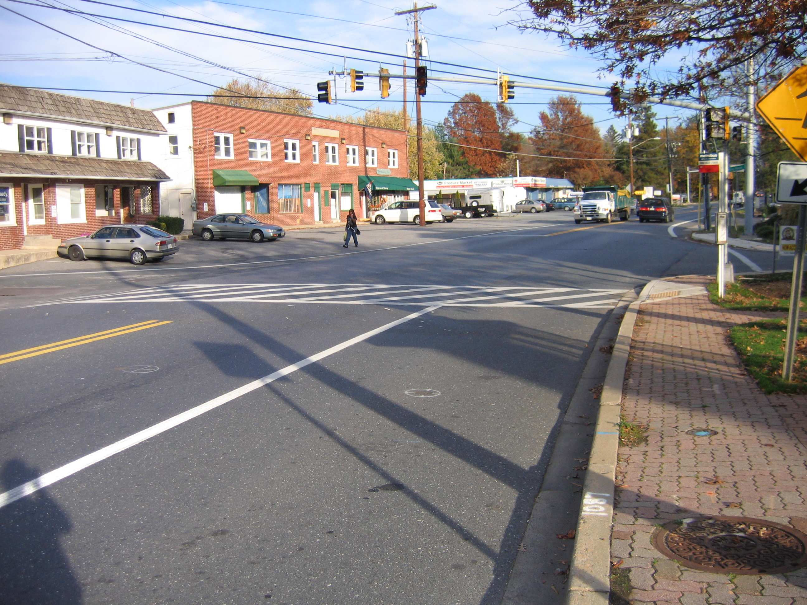 MD 108 at Brooke Road / Meetinghouse Road, Sandy Spring, MD, USA